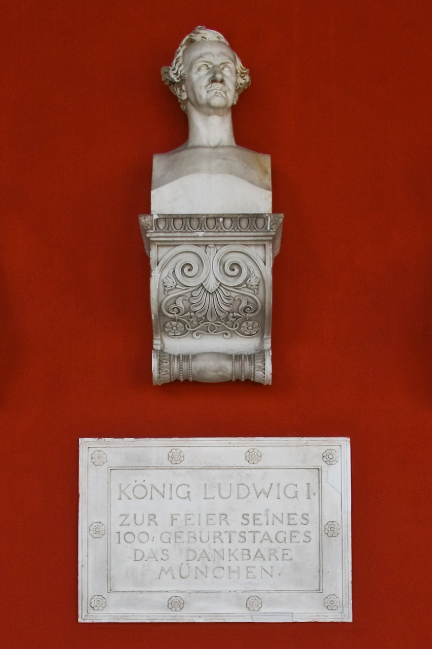 Büste von Ludwig I. of Bavaria in der Ruhmeshalle München